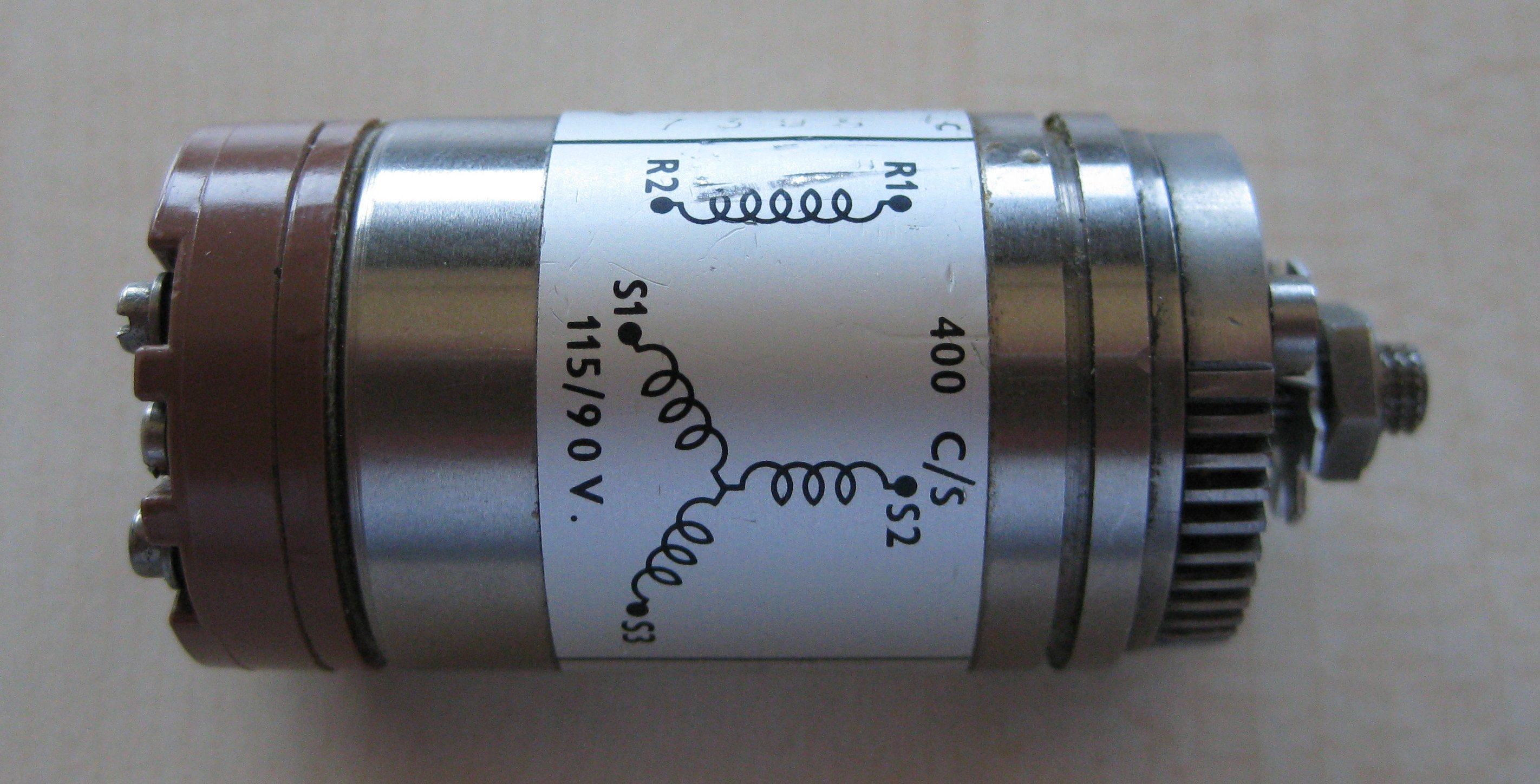 A synchro transmitter with shown connections